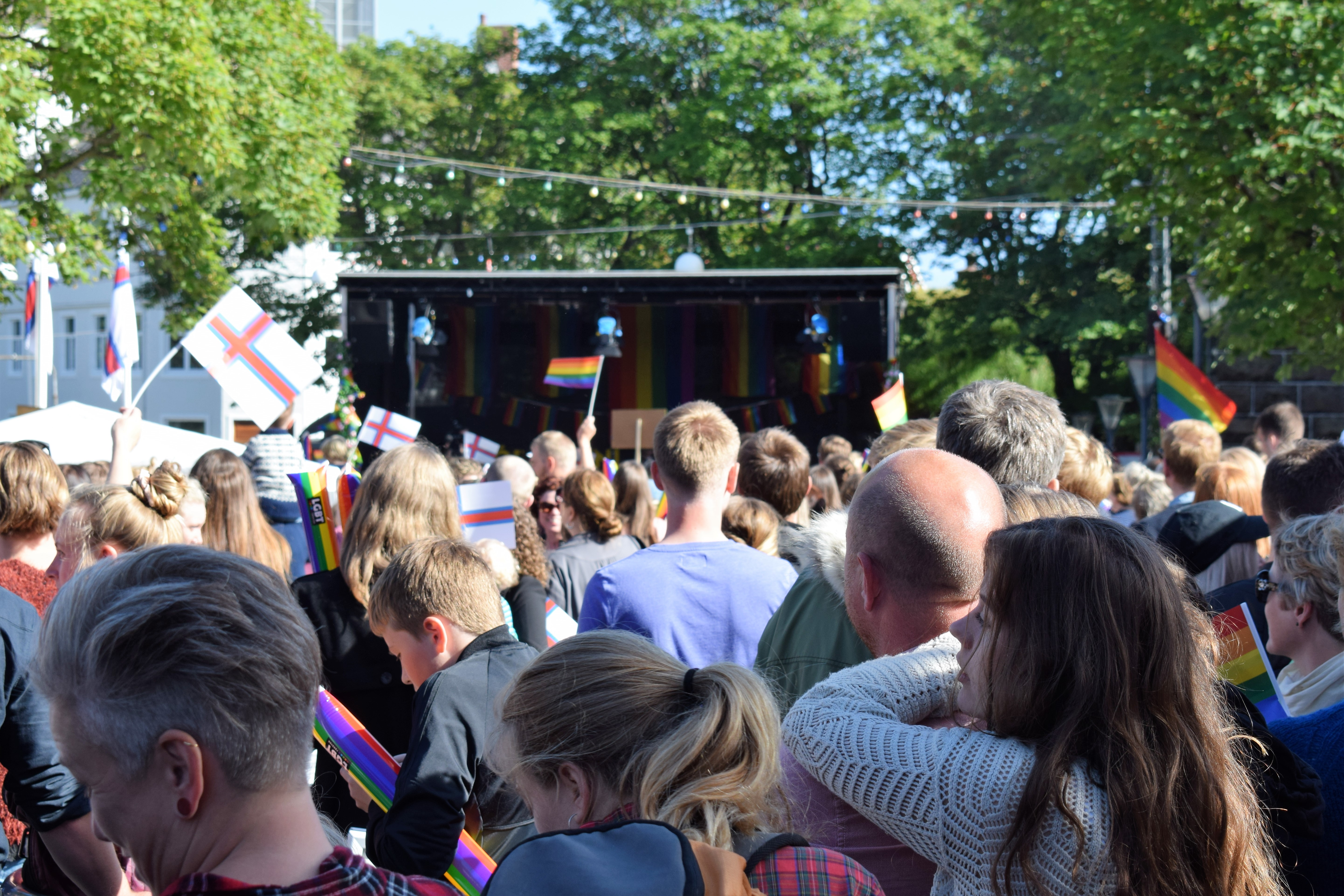 Celebration of Faroe Pride in Tórshavn prior to Ólavsøka, 2017.